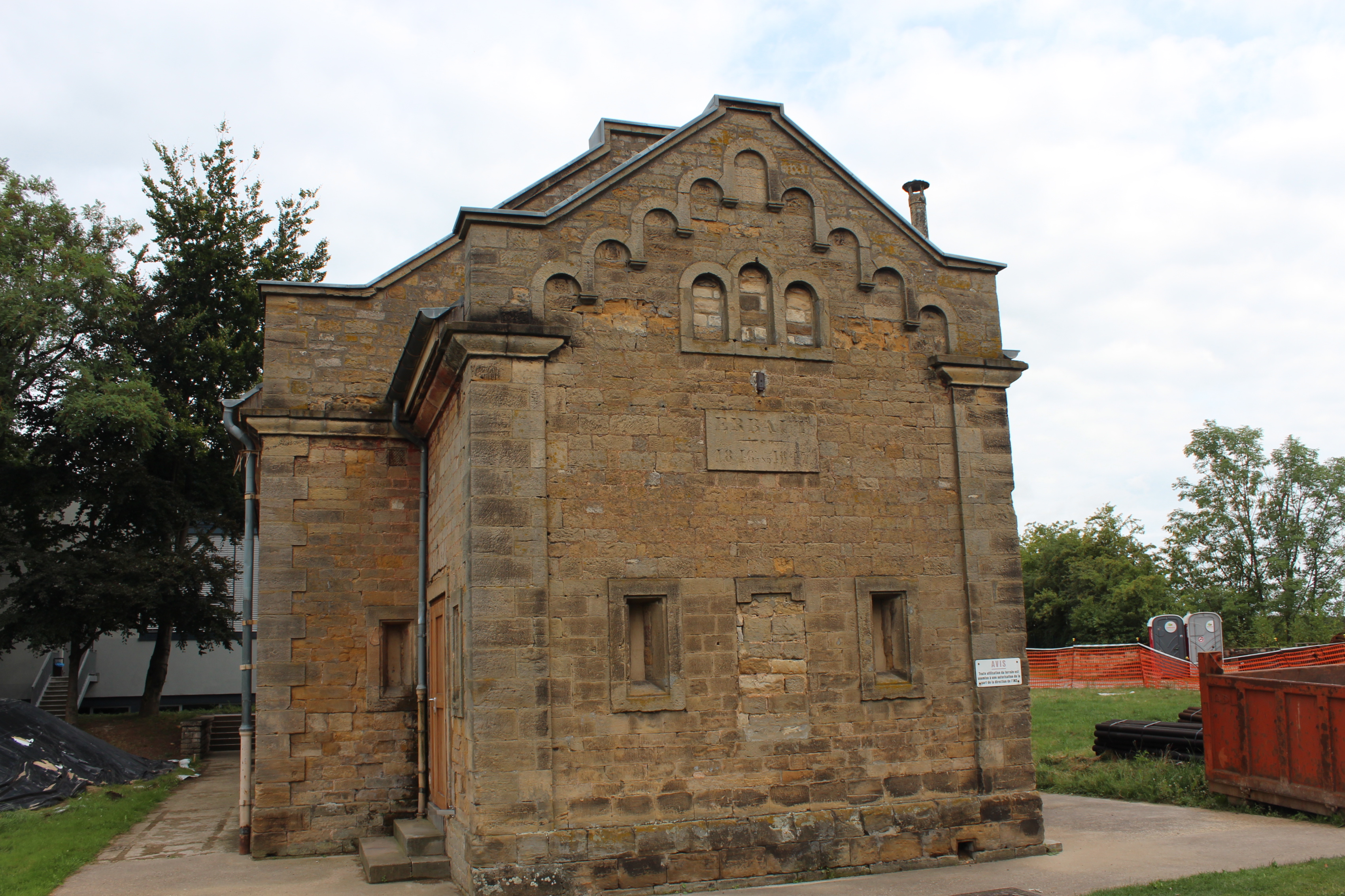 Former gun powder magazine of Fort Rubamprez in Luxembourg City